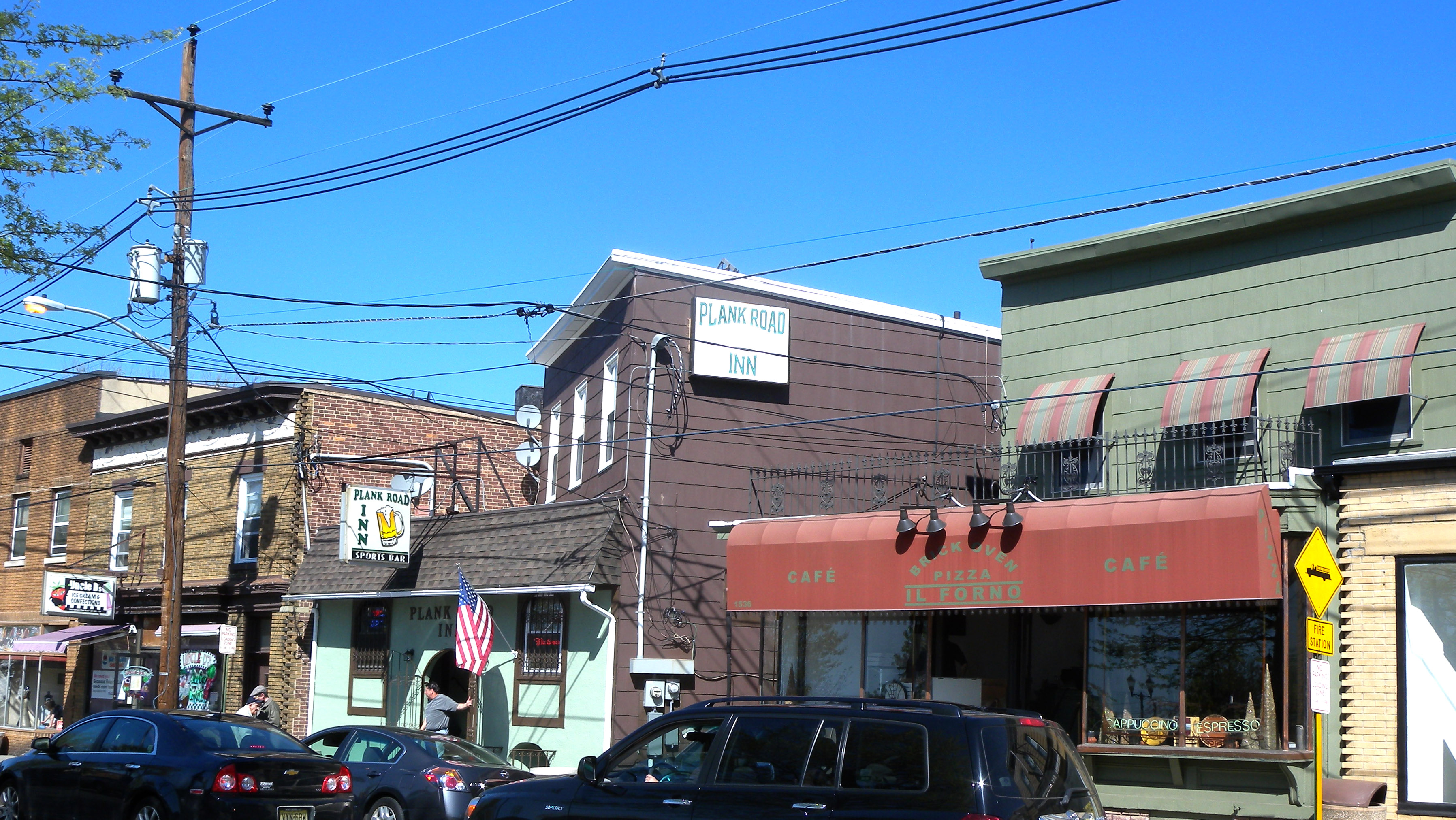 Looking northeast at Plank Road Inn on Paterson Plank Road on a sunny midday.